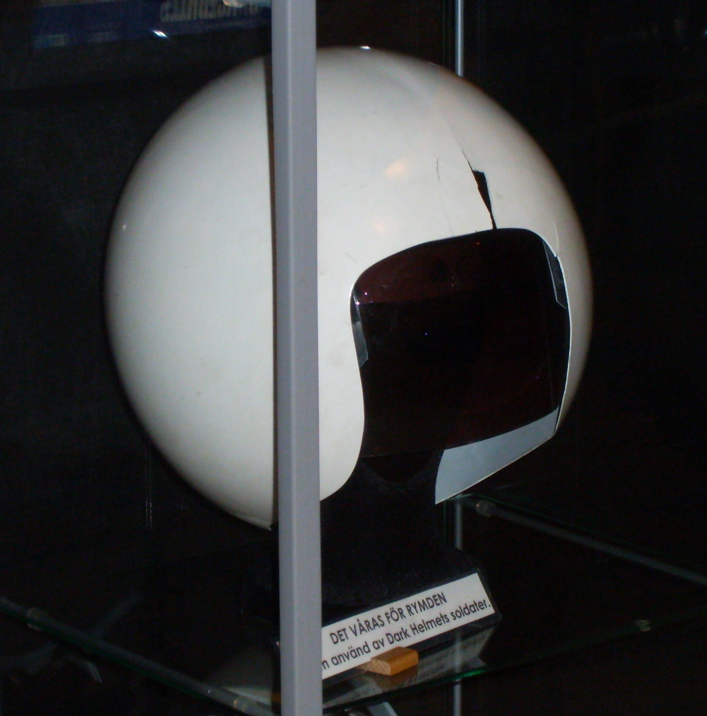 A helmet from the film Spaceballs at a sci-fi convent in Stockholm, Sweden.